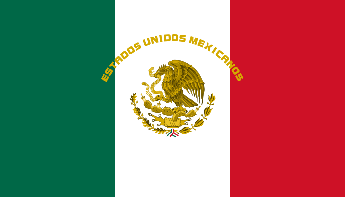 Mexican Presidential Standard